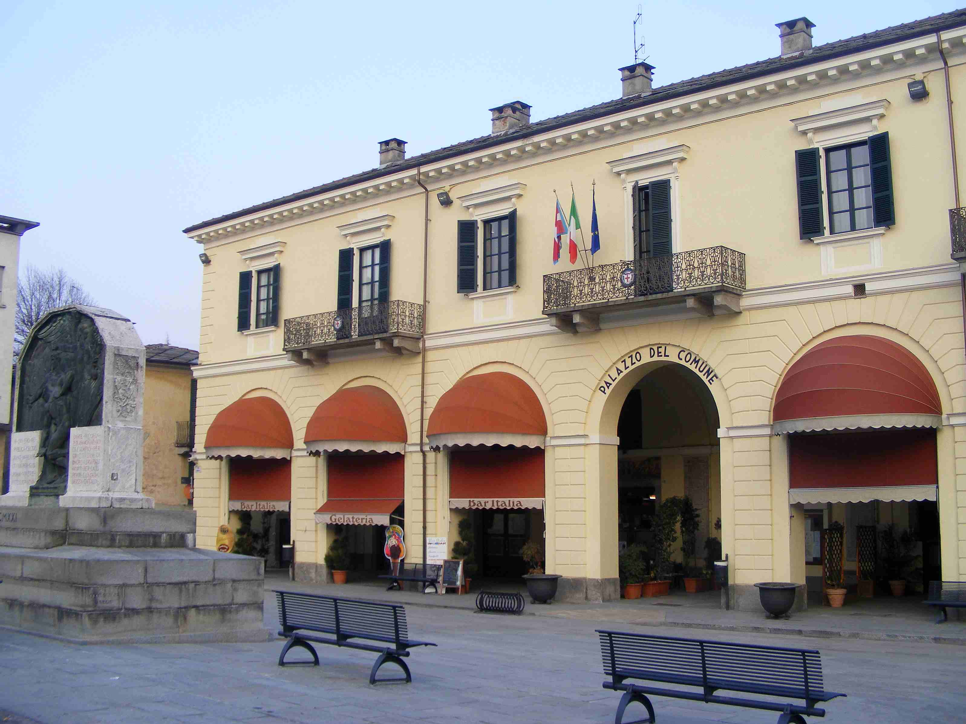 Barge (CN, Italy): town hall